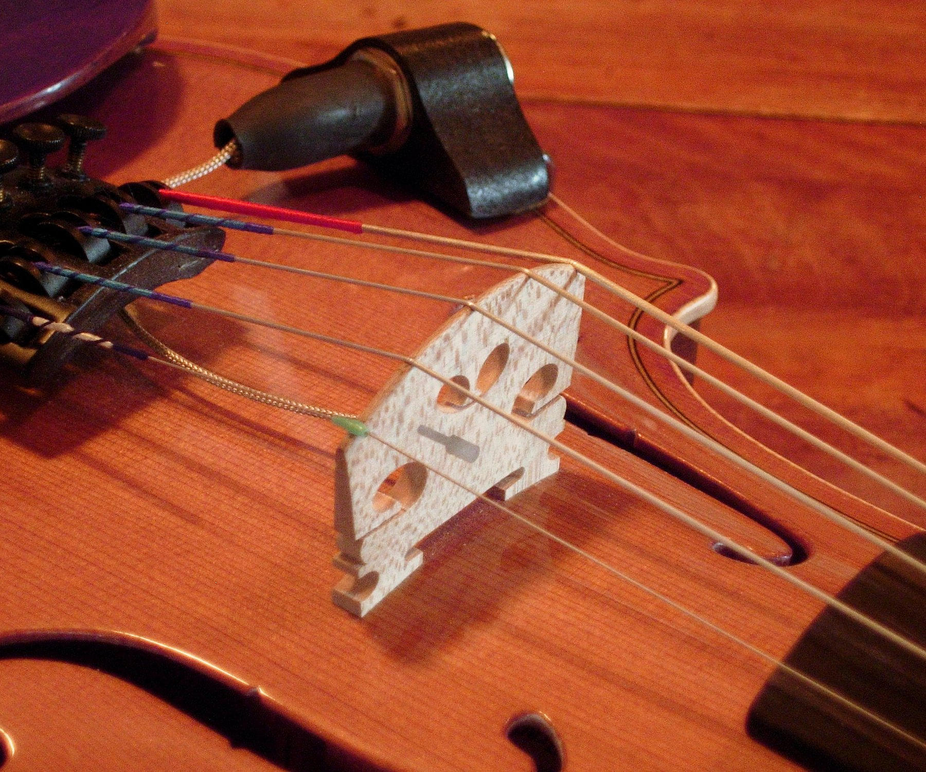 Piezoelectric violin bridge pickup, manufactured by Brad Higgins of Hartford, NY